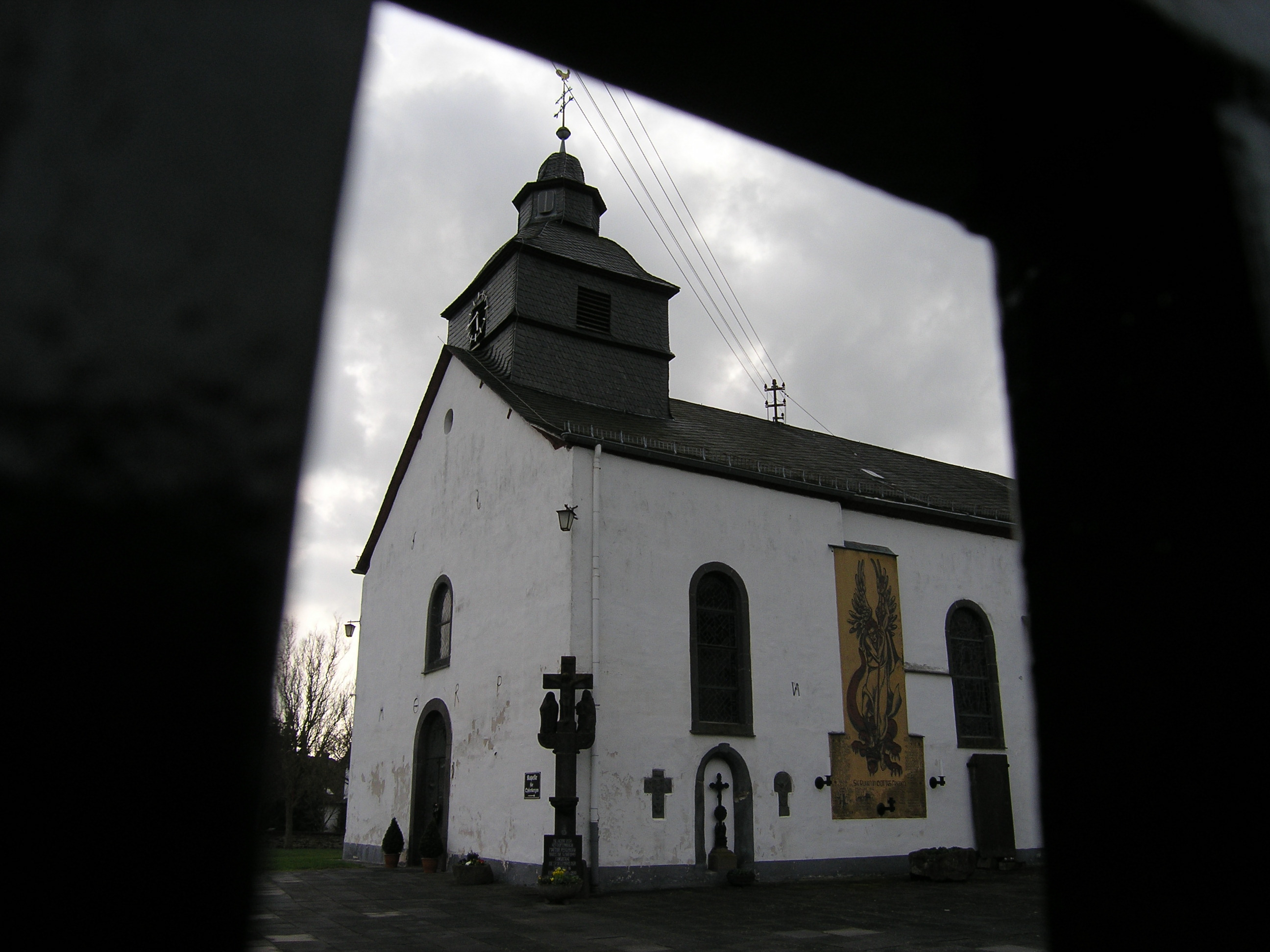 St. Gertrud (Barweiler), Wallfahrtskirche Barweiler